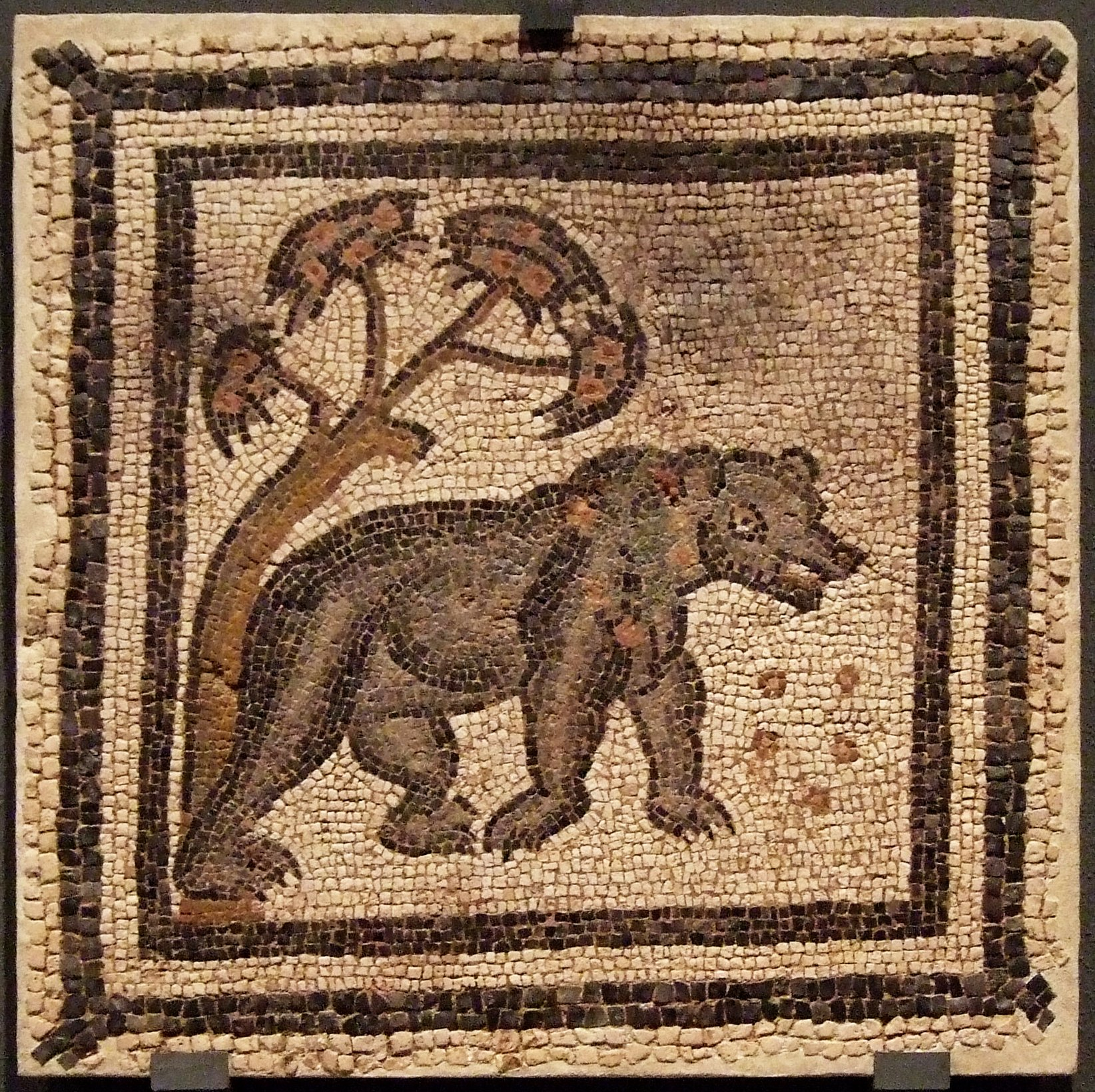 Agricultural calendary (2nd half of 4th c AC). Villa Fortunatus. Mosaic